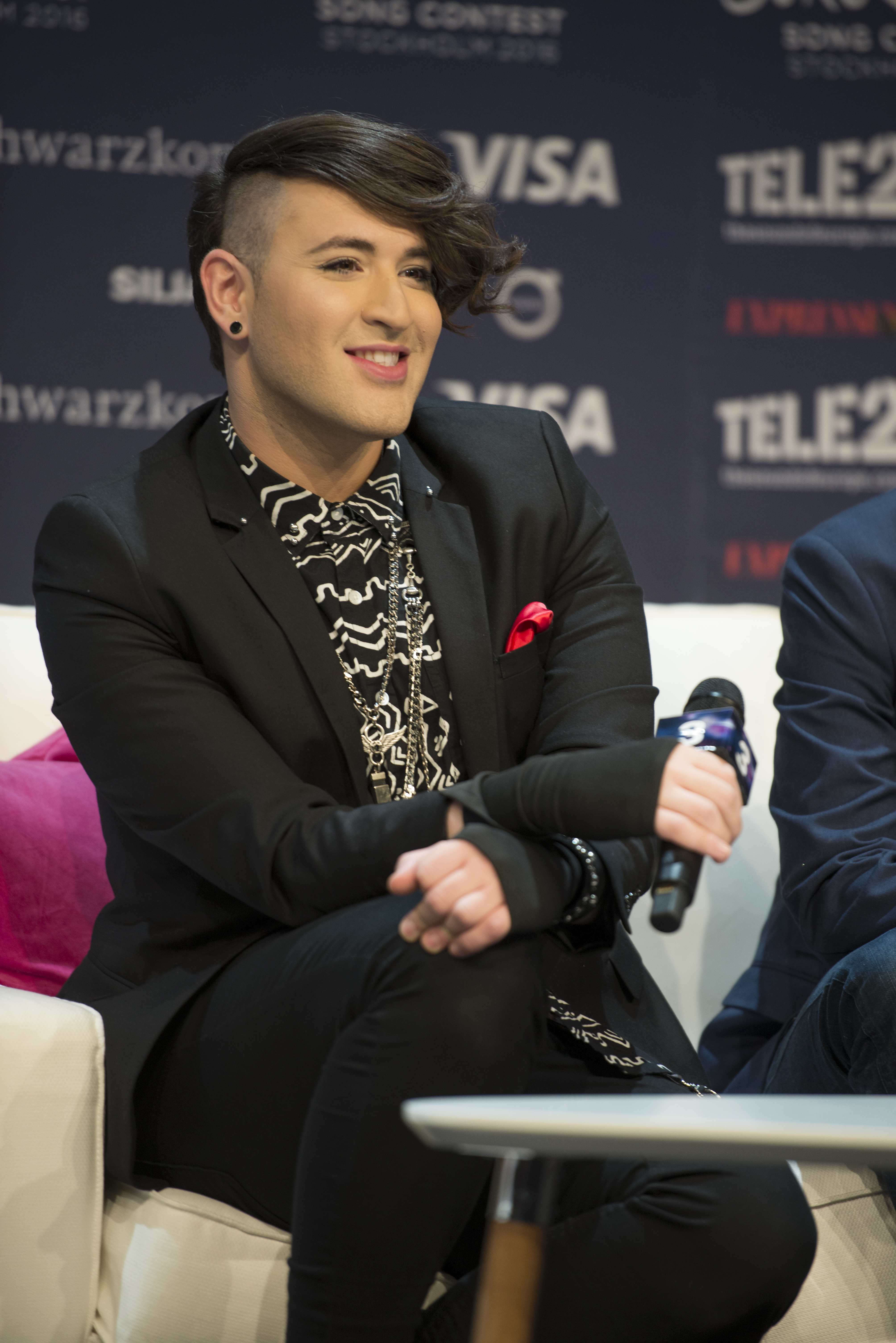 Hovi Star at a Meet & Greet during the Eurovision Song Contest 2016 in Stockholm. (Help translate this text)